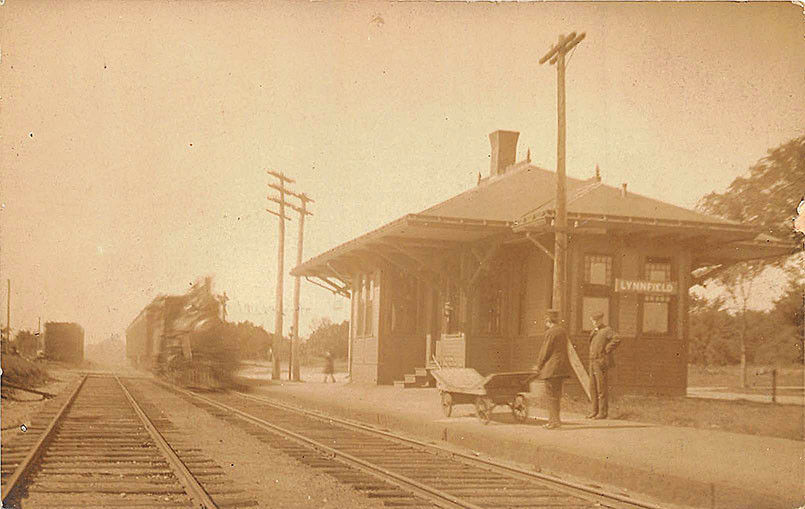 Early divided back postcard of Lynnfield station on the South Reading Branch